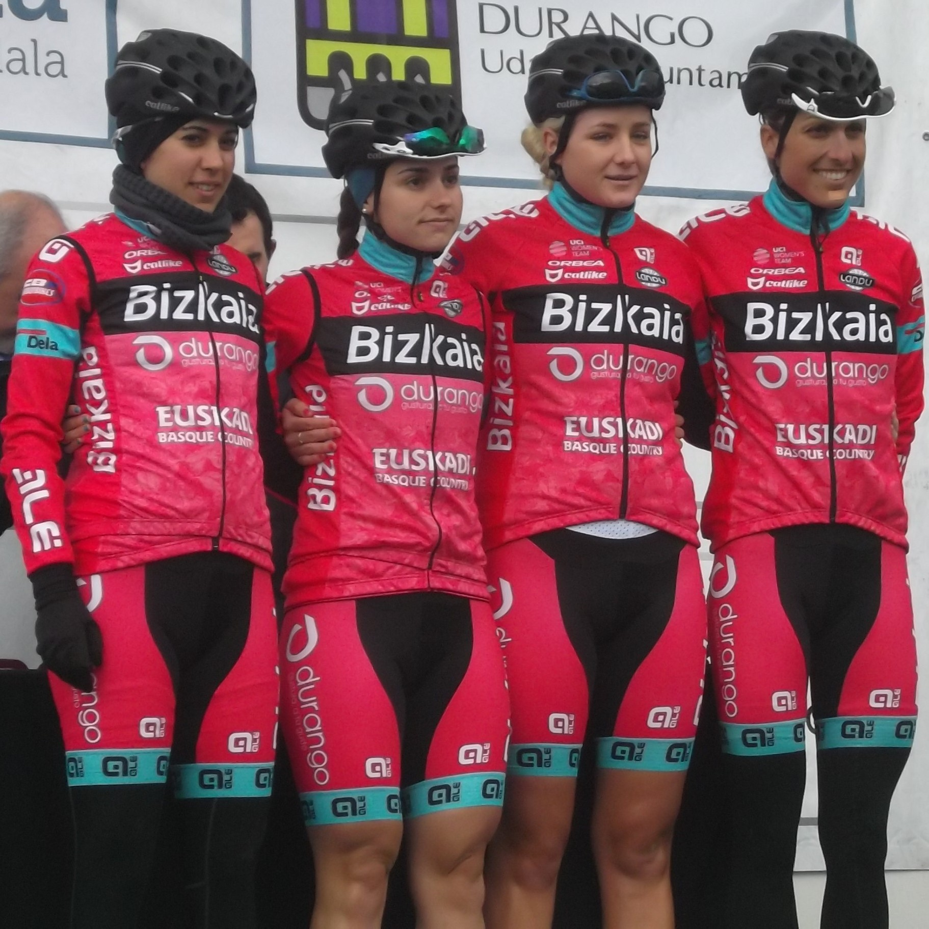 Bizkaia Durango Emakumeen Bira 2016